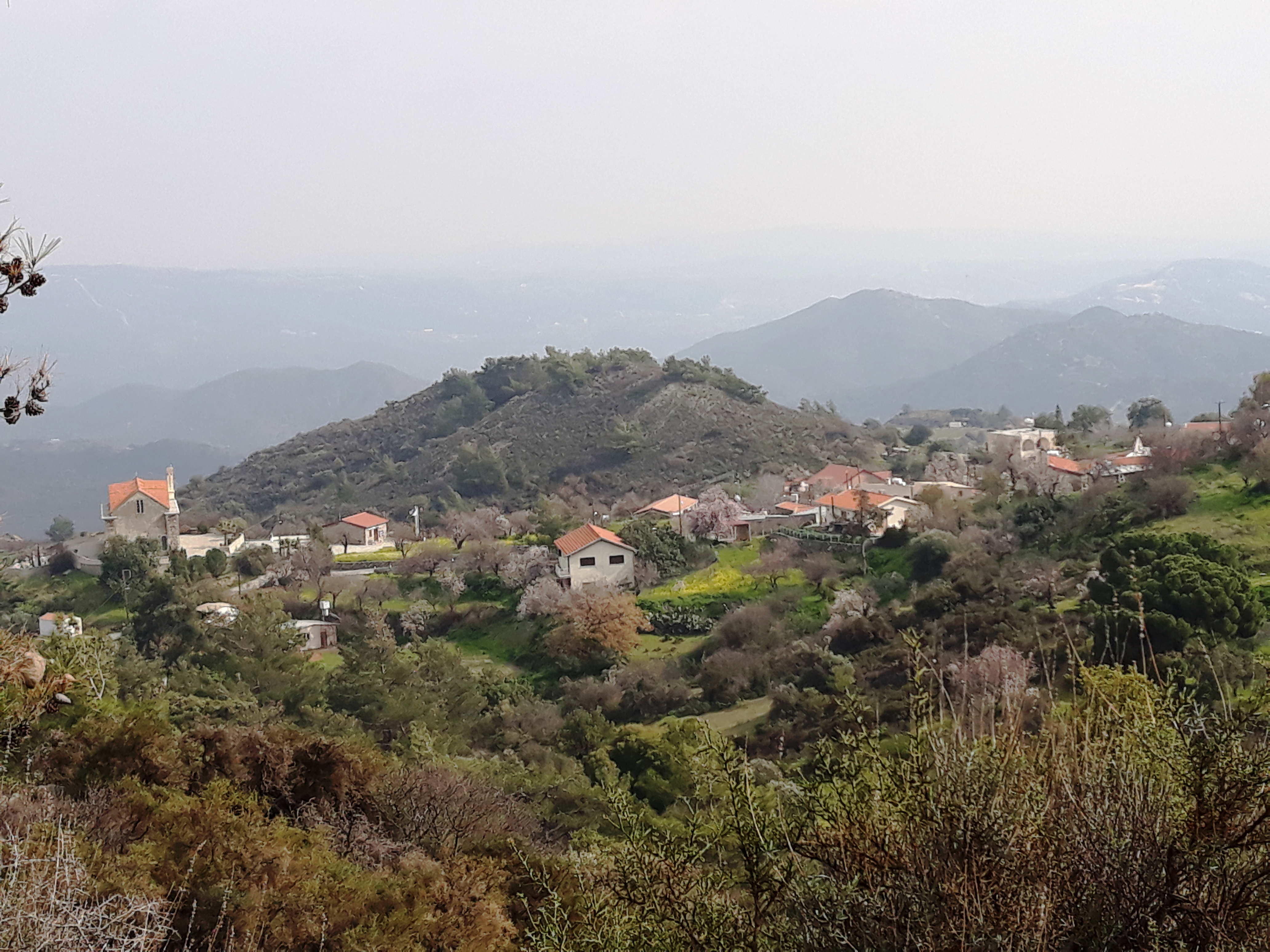 View of Sanida.